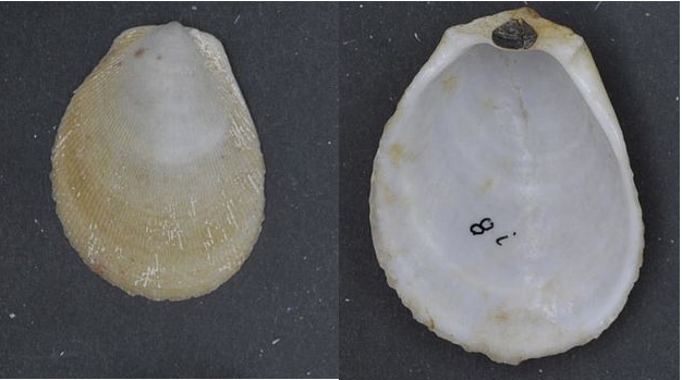 Ctenoides scabra (Von Born, 1778), Limidae, Bivalvia, Mollusca, Naturalis Biodiversity Center - RMNH.MOL.321823 1